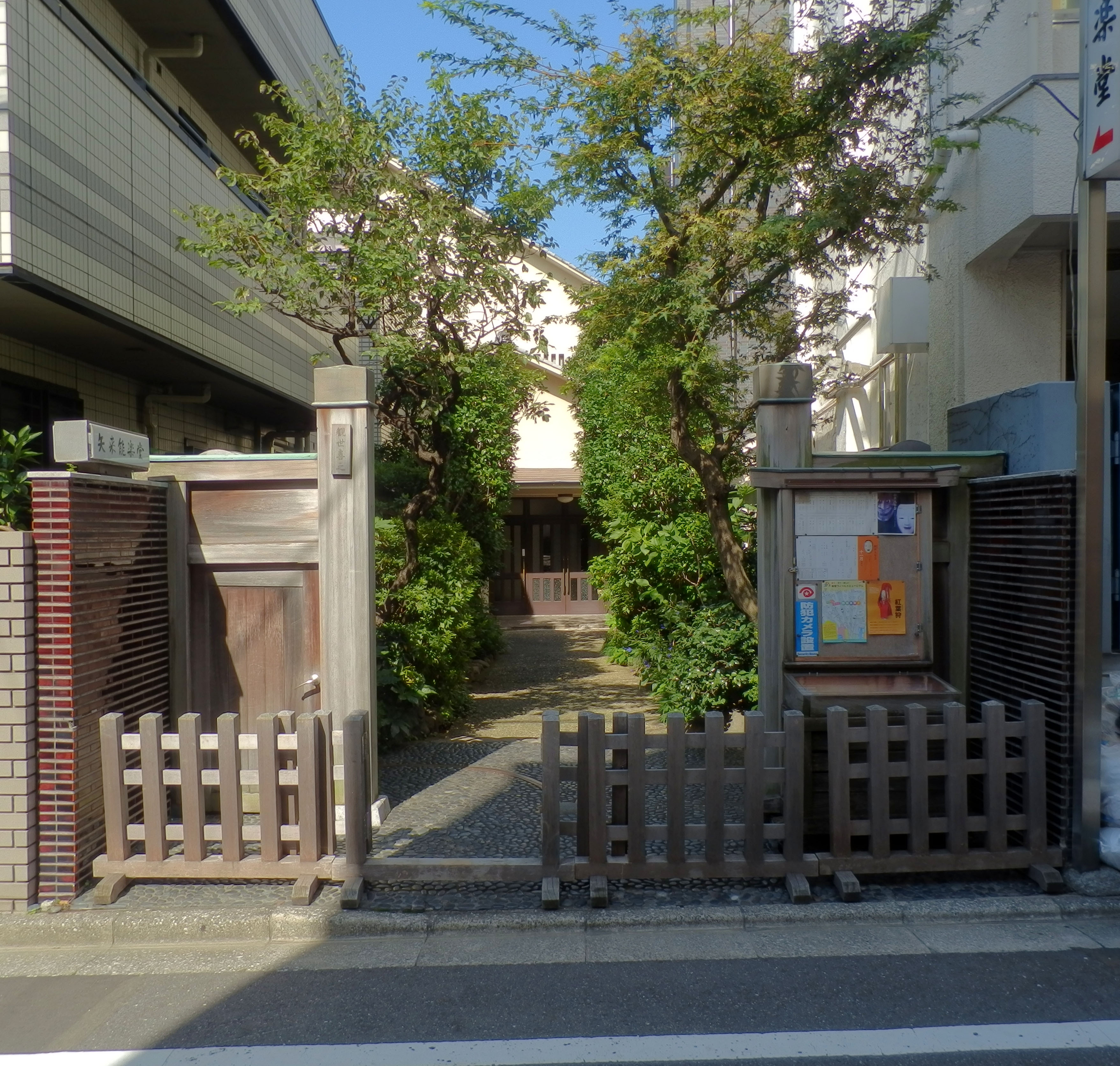 Yarai Noh Stage (Yarai Noh-gakudo) entrance